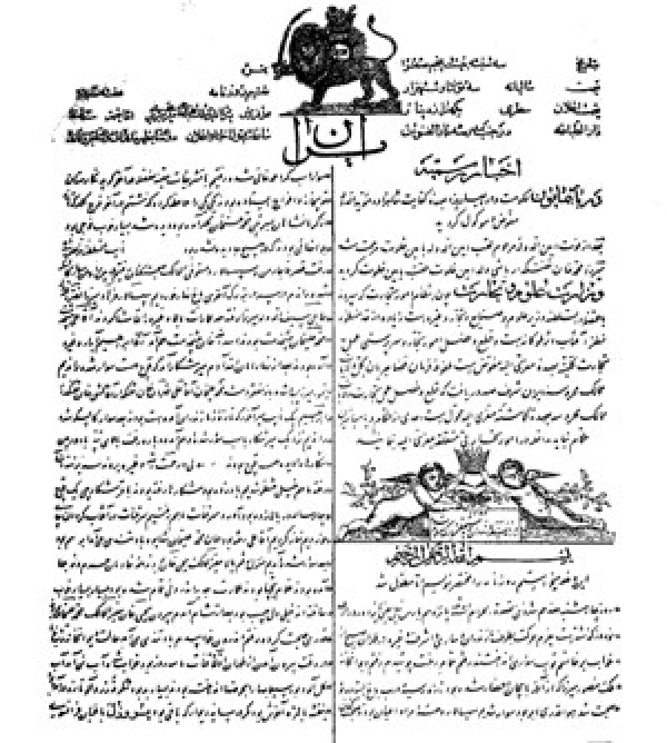 Travel book of Naser al-Din Shah visit to Mazandaran